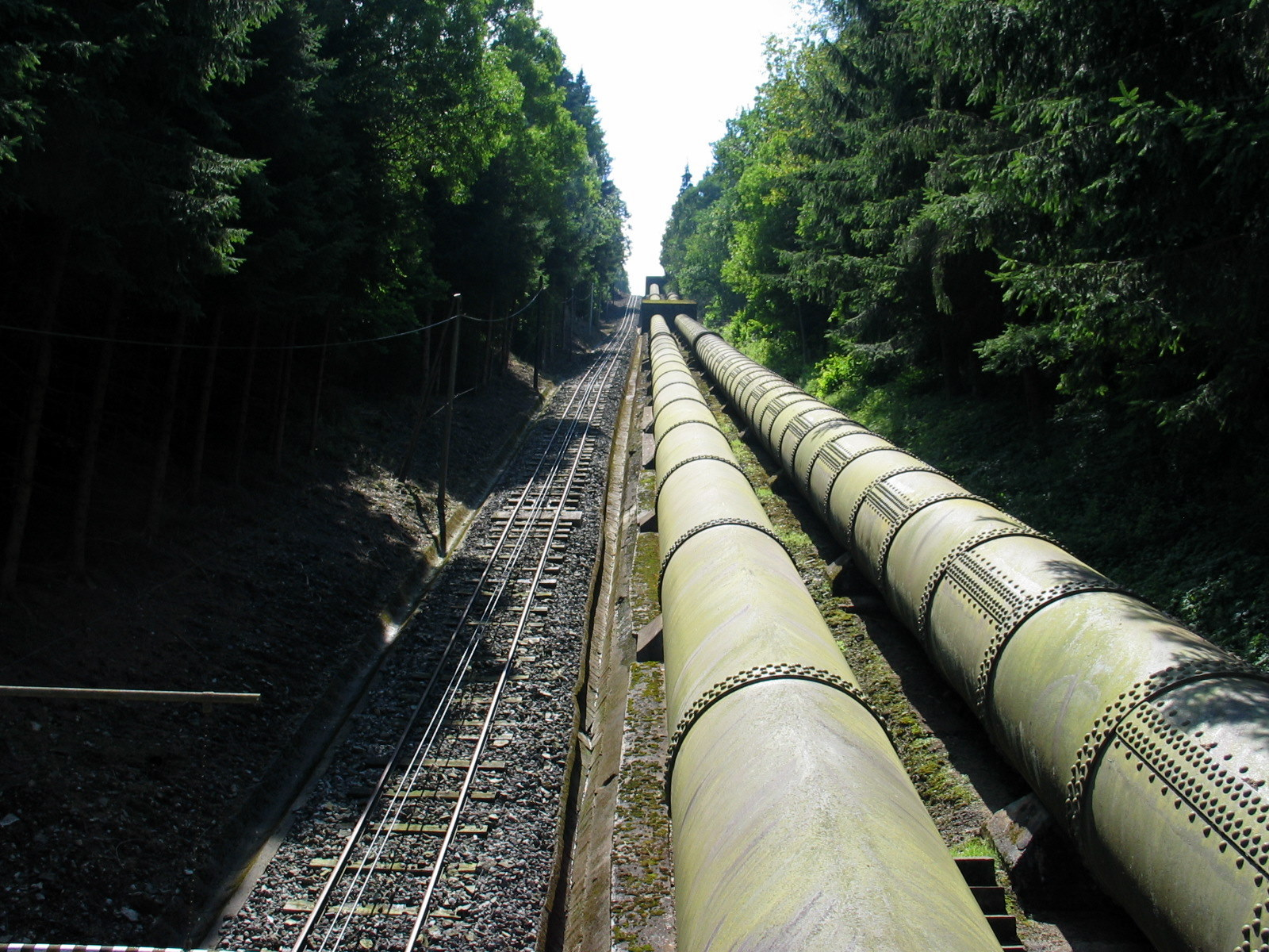 Penstocks of Arnstein power station at the river Teigitsch in Styria / Austria / European Union.